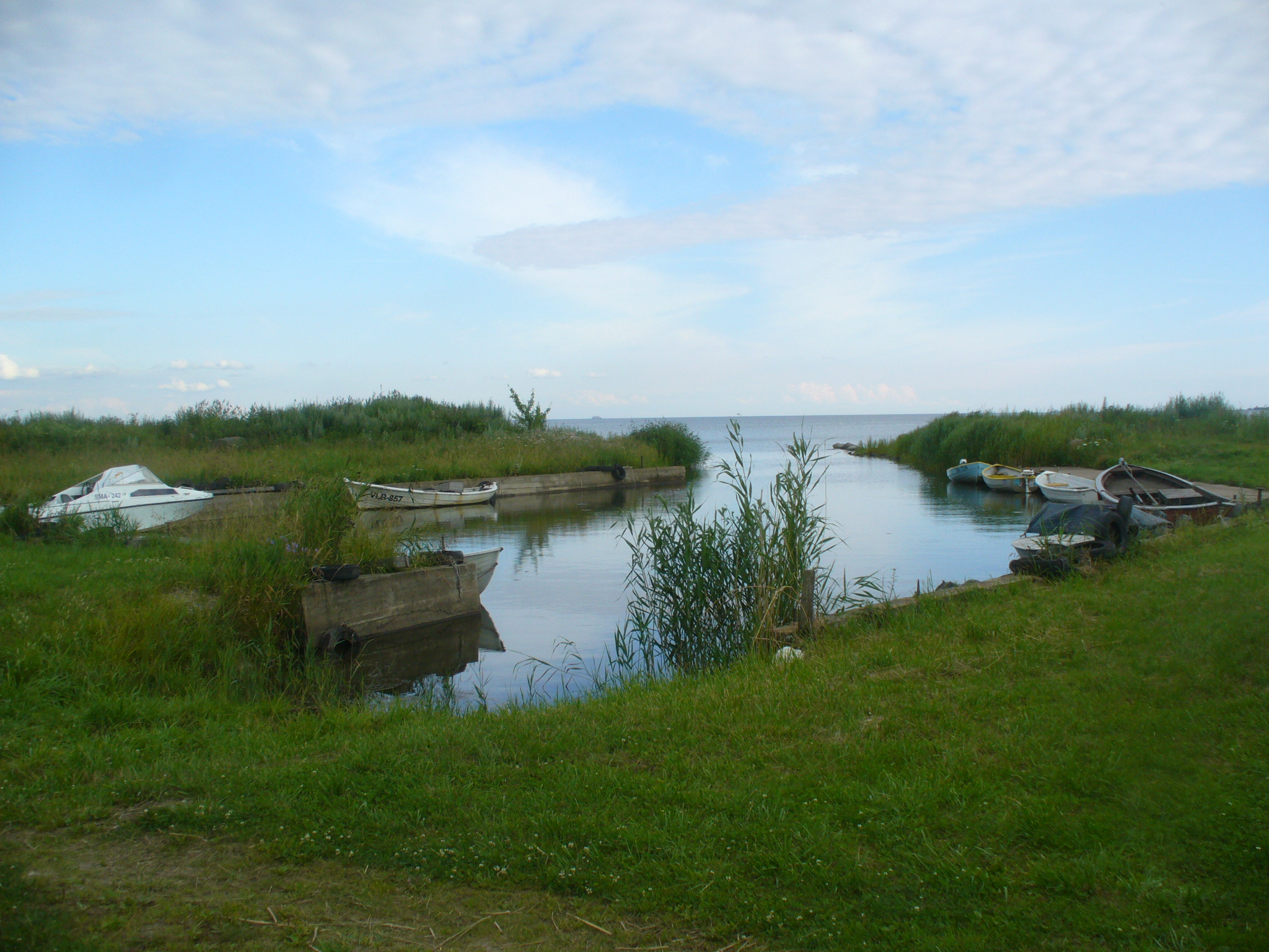 Lalli harbour. Lalli village, Muhu commune, Saare county, Estonia.